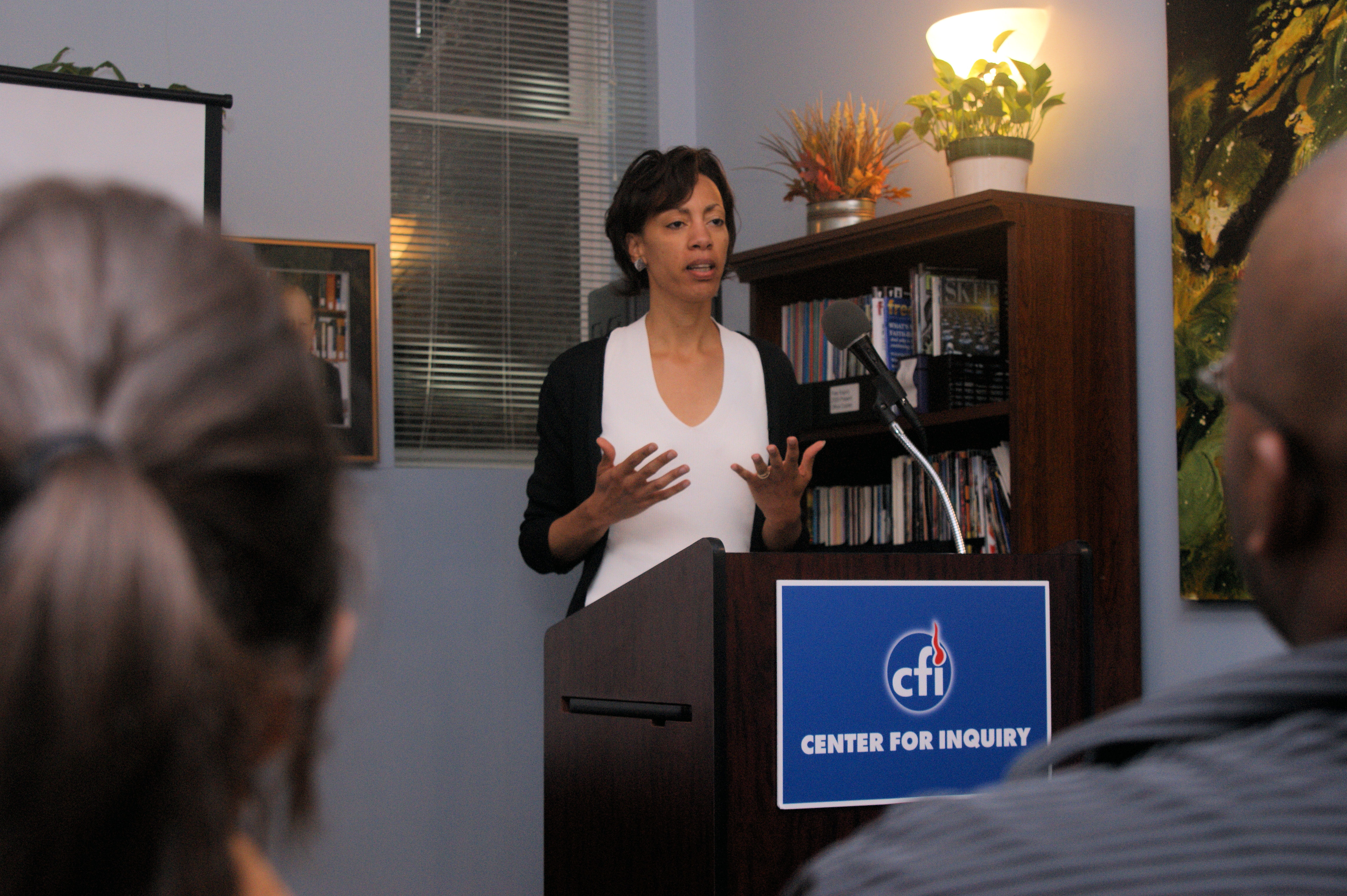 At the African Americans for Humanism Conference, May 16, 2010 at Center for Inquiry, Washington, DC. Dr. Hutchinson spoke on "This Far by Faith - Race Traitors, Gender Apostates and Atheism Question."